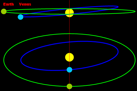 Diagram showing how transits of Venus occur and why they don't occur frequently. Drawn by User:Theresa Knott; License see: [1]